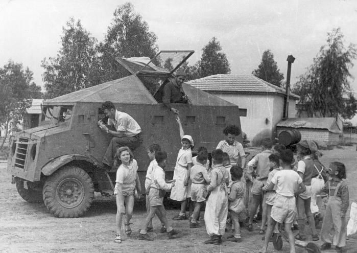 A Butterfly Haganah improvised Armored-car at Kibbutz Dorot in the Negev,Israel 1948. The Armored-car is based on CMP-15 truck. The car has brought supply to the Kibbutz. The Negev Kibbutz's children were later evacuated by those cars from their Kibbutz, before an expected Egyptian Army attack. see more at: [1] (Hebrew) The photo was taken on 1948 by פרד צ'סניק